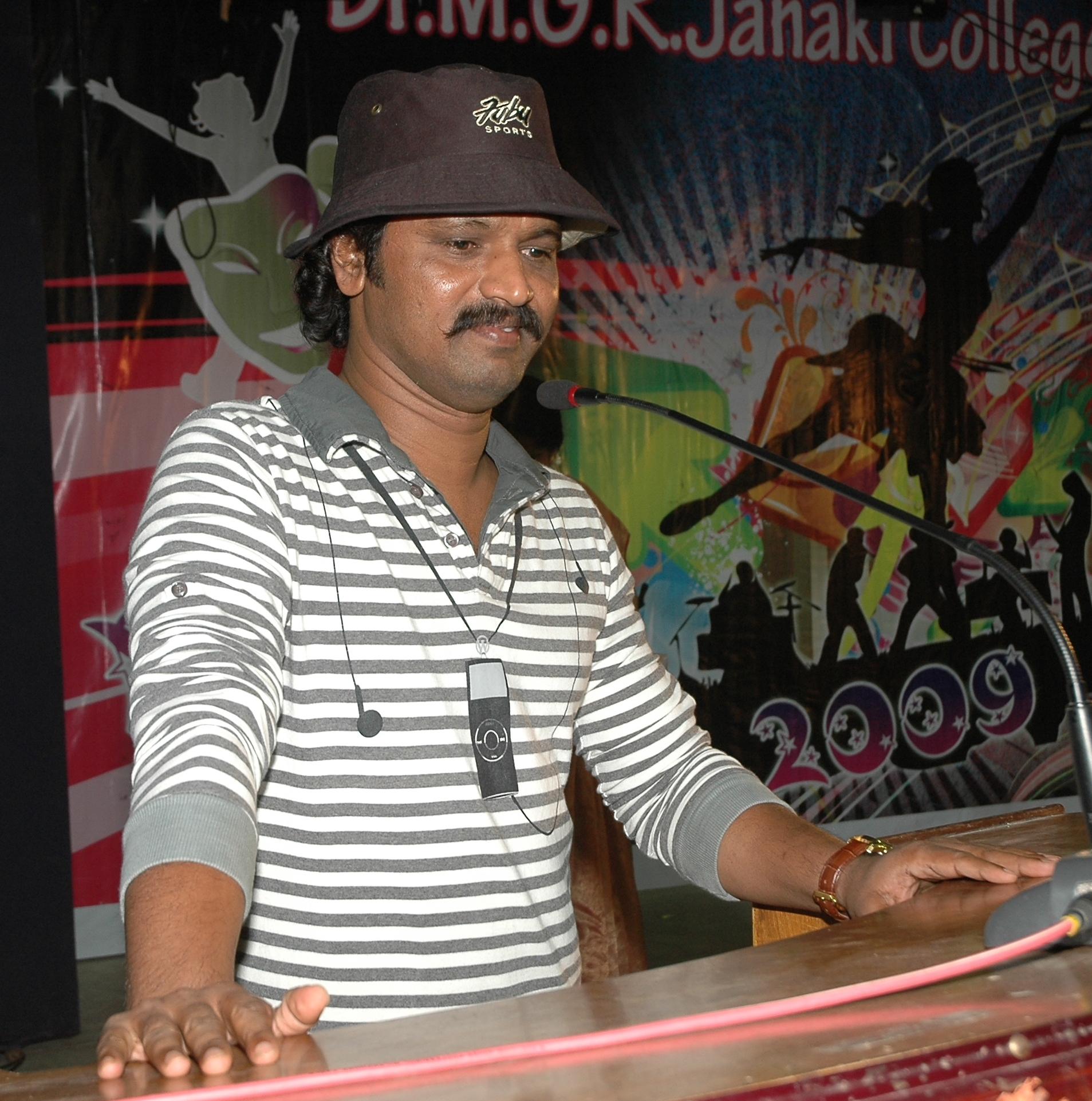 Cheran addressing students of Dr.MGR Janaki College